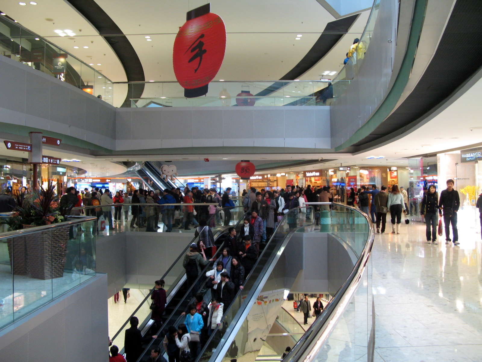 HK Citygate Outlet 東薈城